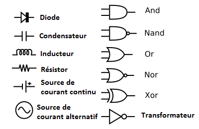 Common electronic circuit elements.